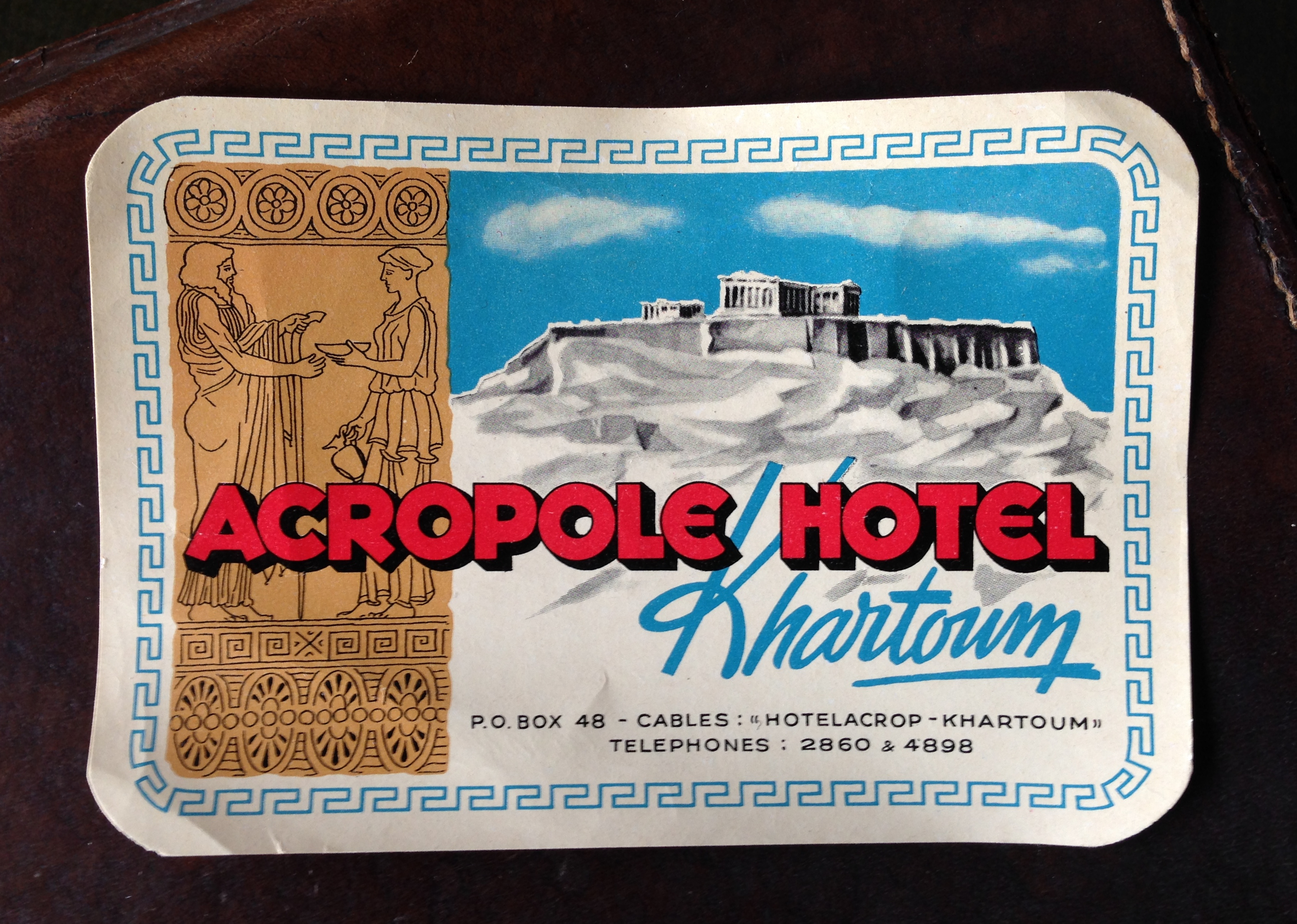 Historical sticker of the Acropole Hotel in Khartoum, Sudan, on a vintage suitcase